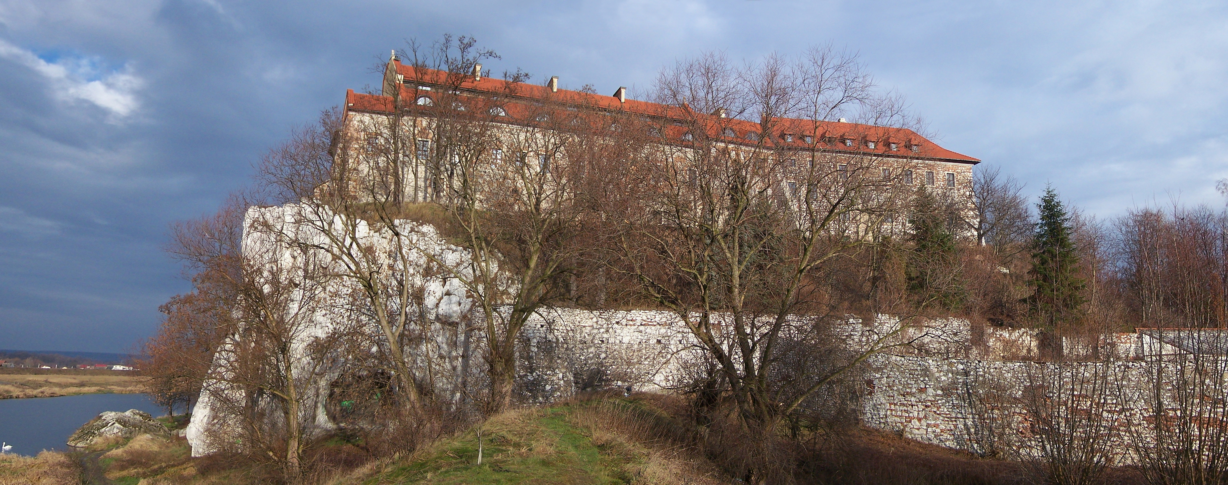 Abbey in Tyniec (Poland).